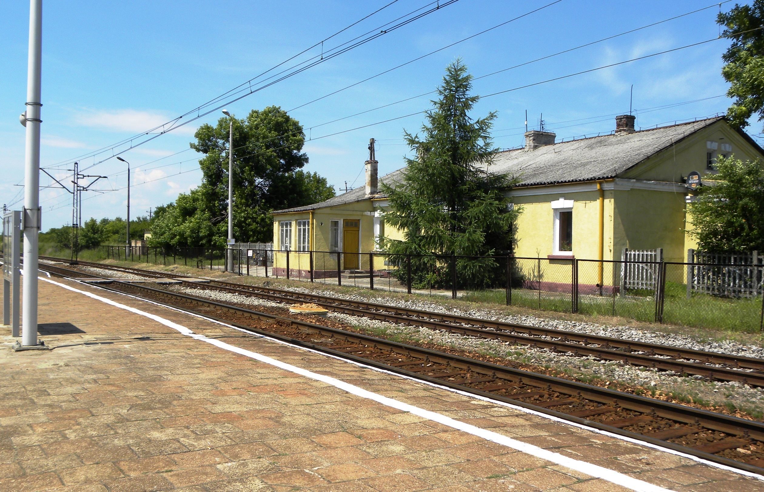 Railroad station in Miąsowa from platform.